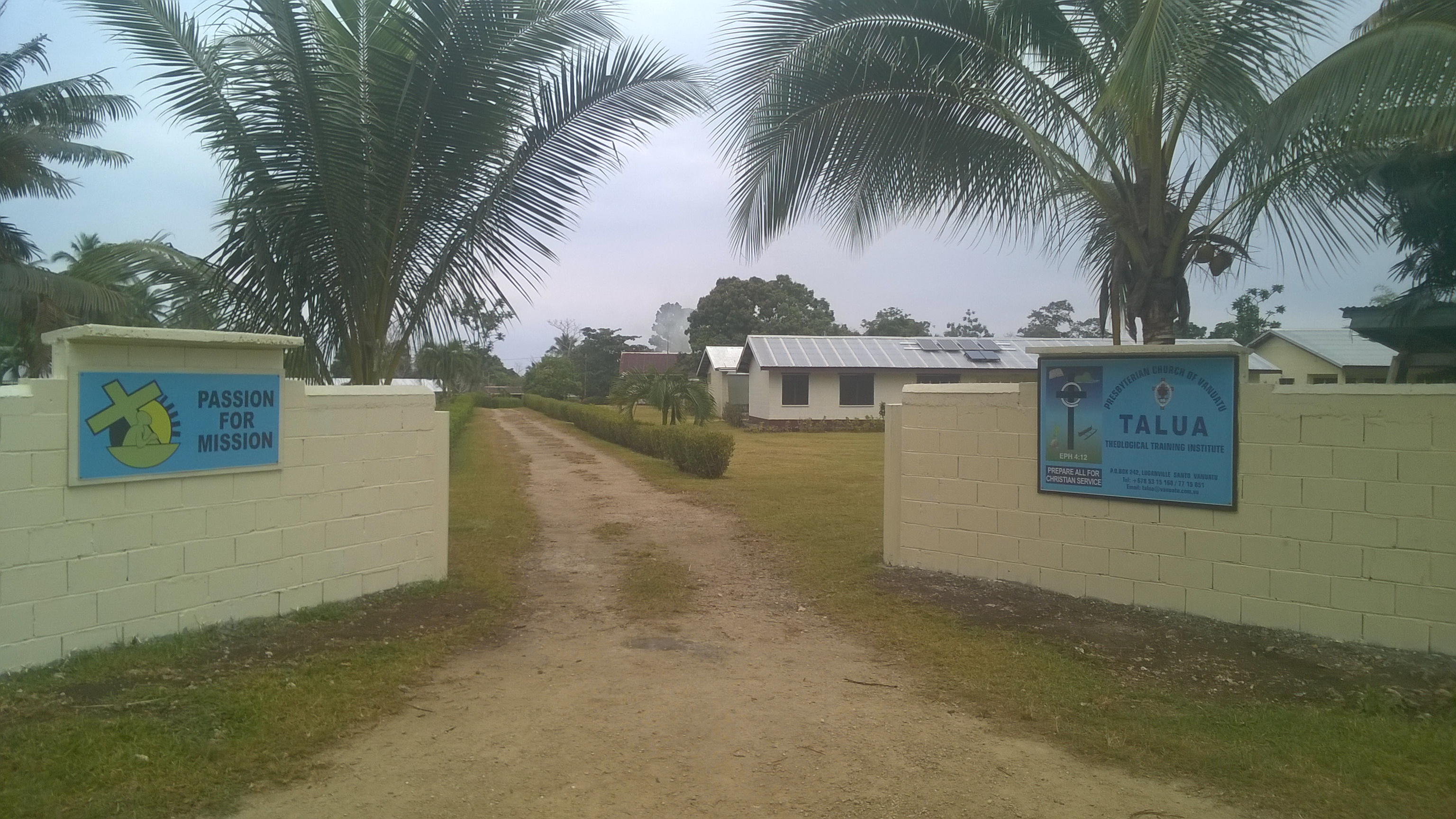 The entrance to Talua Theological Training Institute (formerly Talua Ministry Training Centre) with its new sign